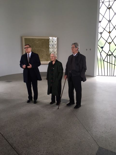 Franz Gertsch with his wife in April 2017 in Hürth